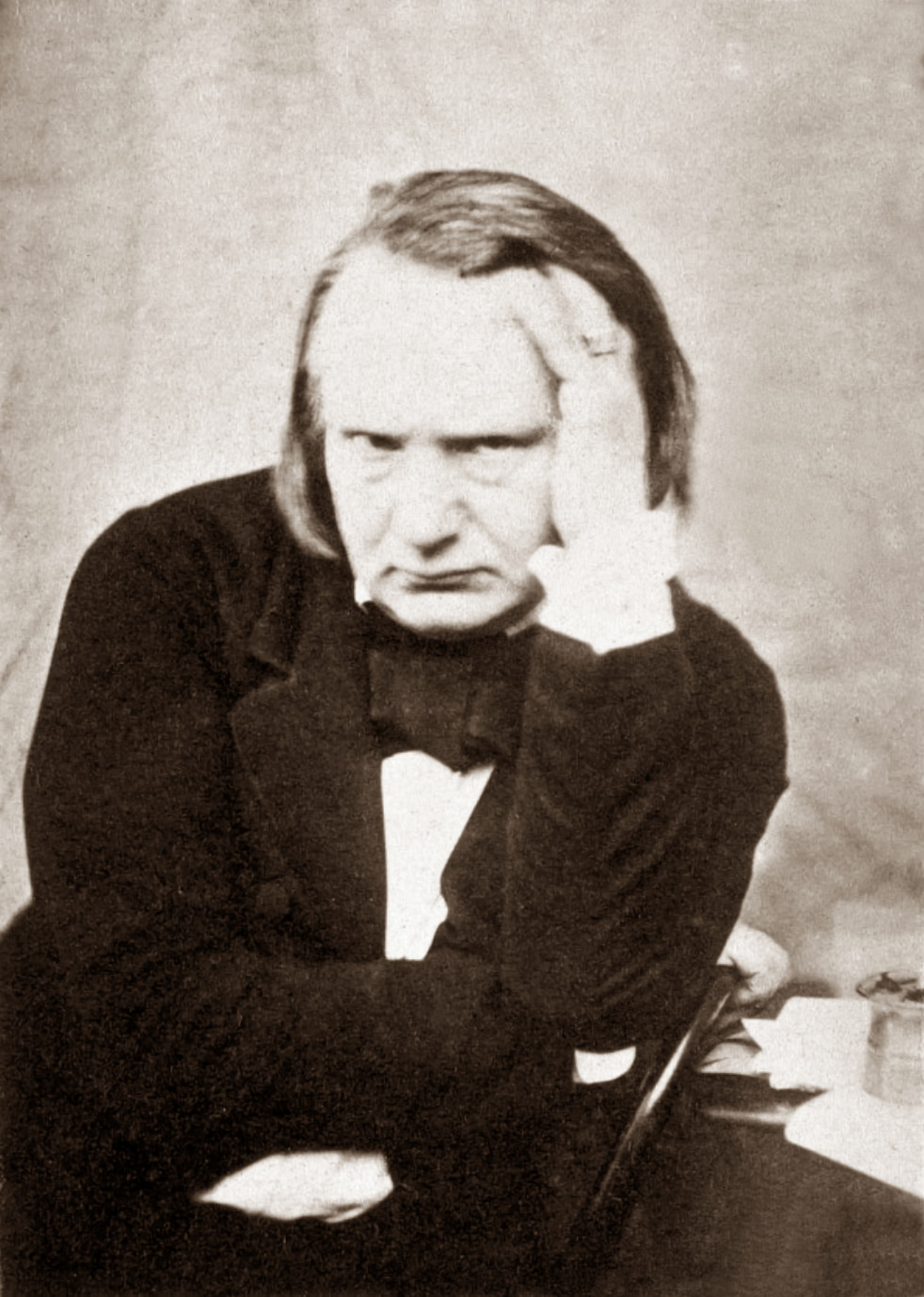 Victor Hugo